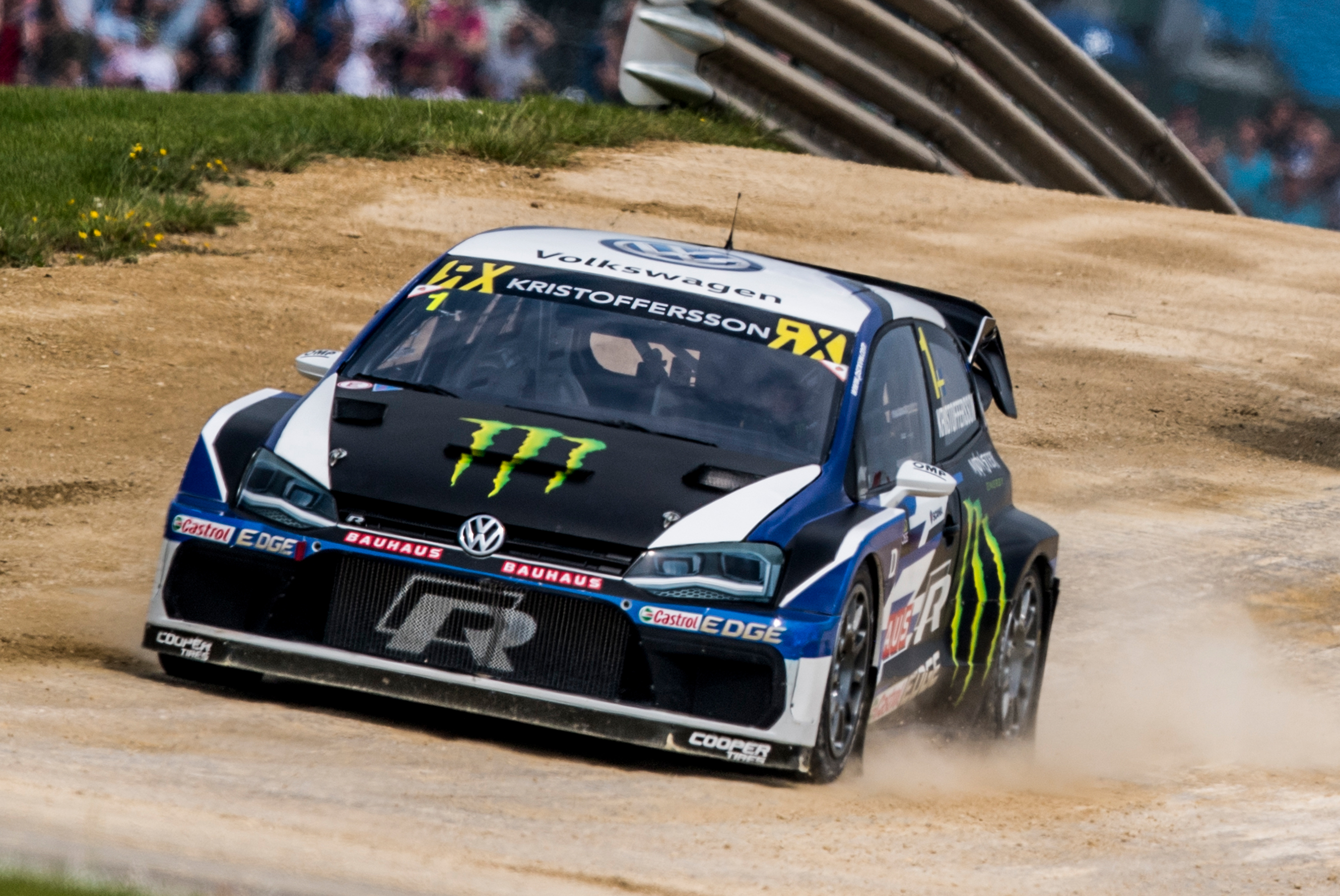 2018 FIA World Rallycross Championship // Round 4, Silverstone, Great Britain // Credit: EKS Audi Sport